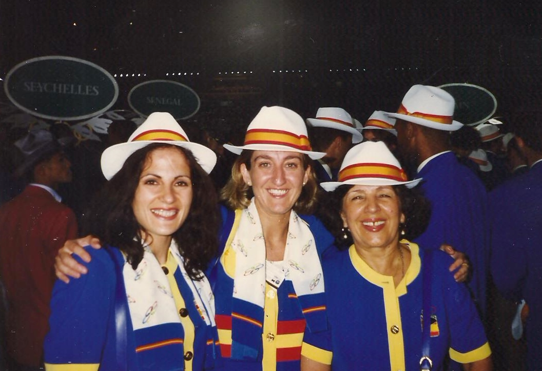 Emilia Boneva, María Fernández and Marisa Mateo, of Spain, during the Parade of Nations at the 1996 Summer Olympics opening ceremony.